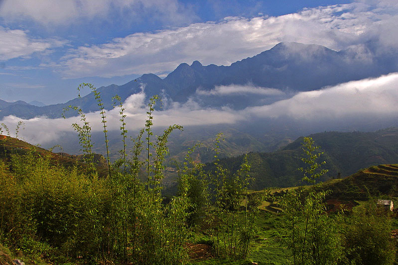 View on the mountains from downtown Sapa